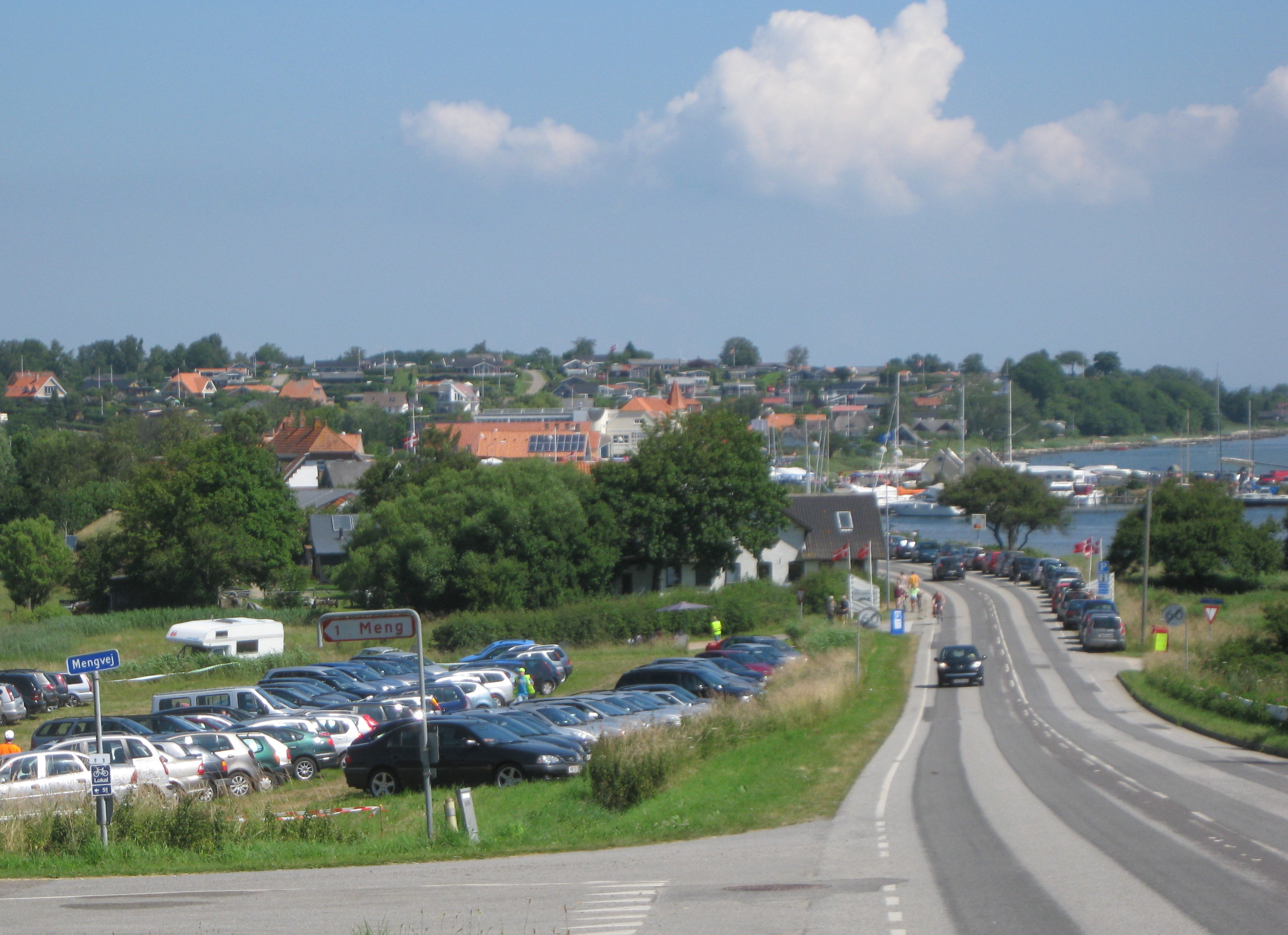 The place "Hejlsminde" east of the small town "Christiansfeld" located in South Jutland, south Denmark.